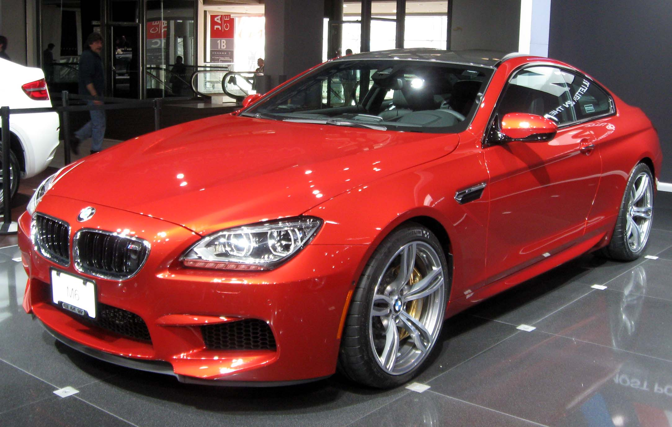 2013 BMW M6 photographed at the 2012 New York International Auto Show.